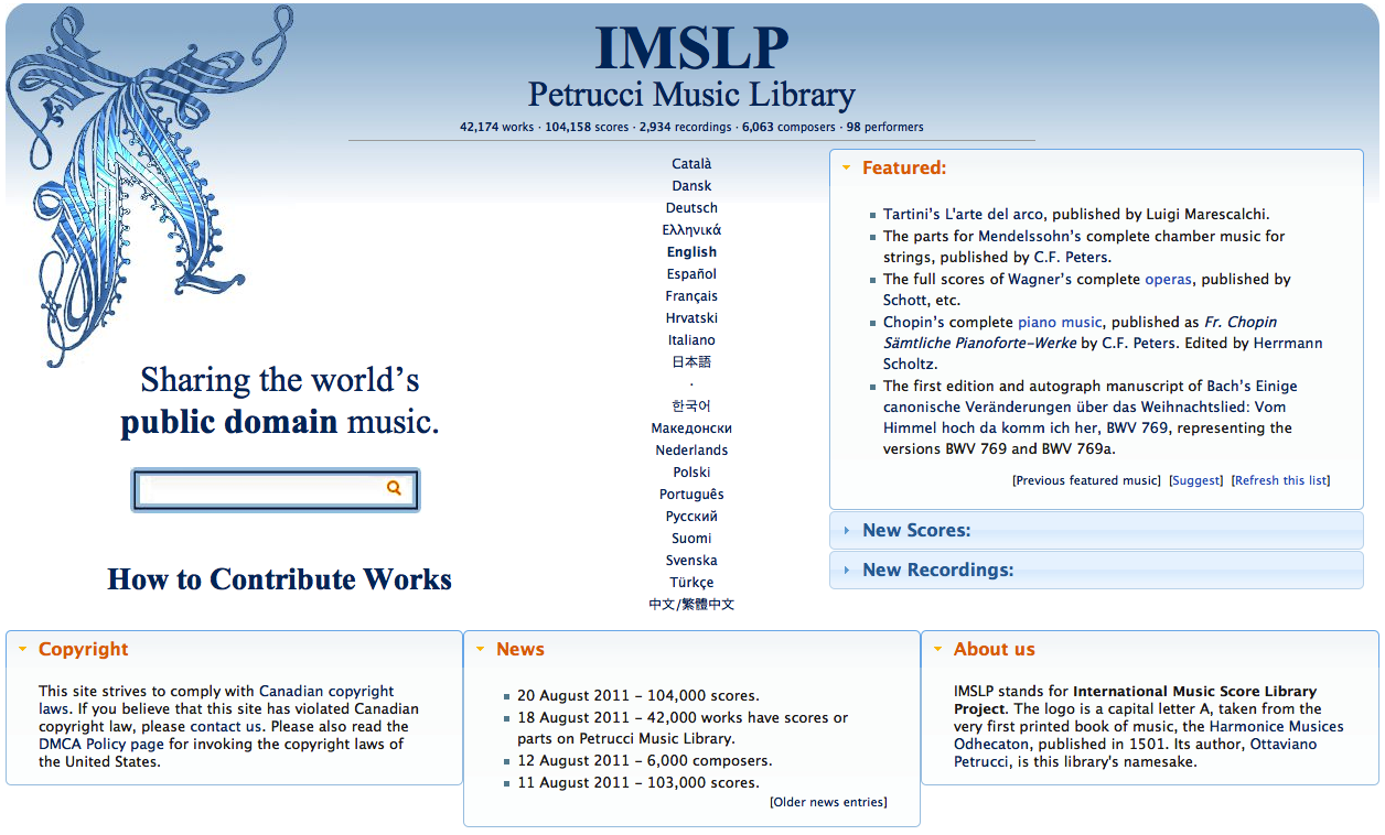 New Main Page of IMSLP